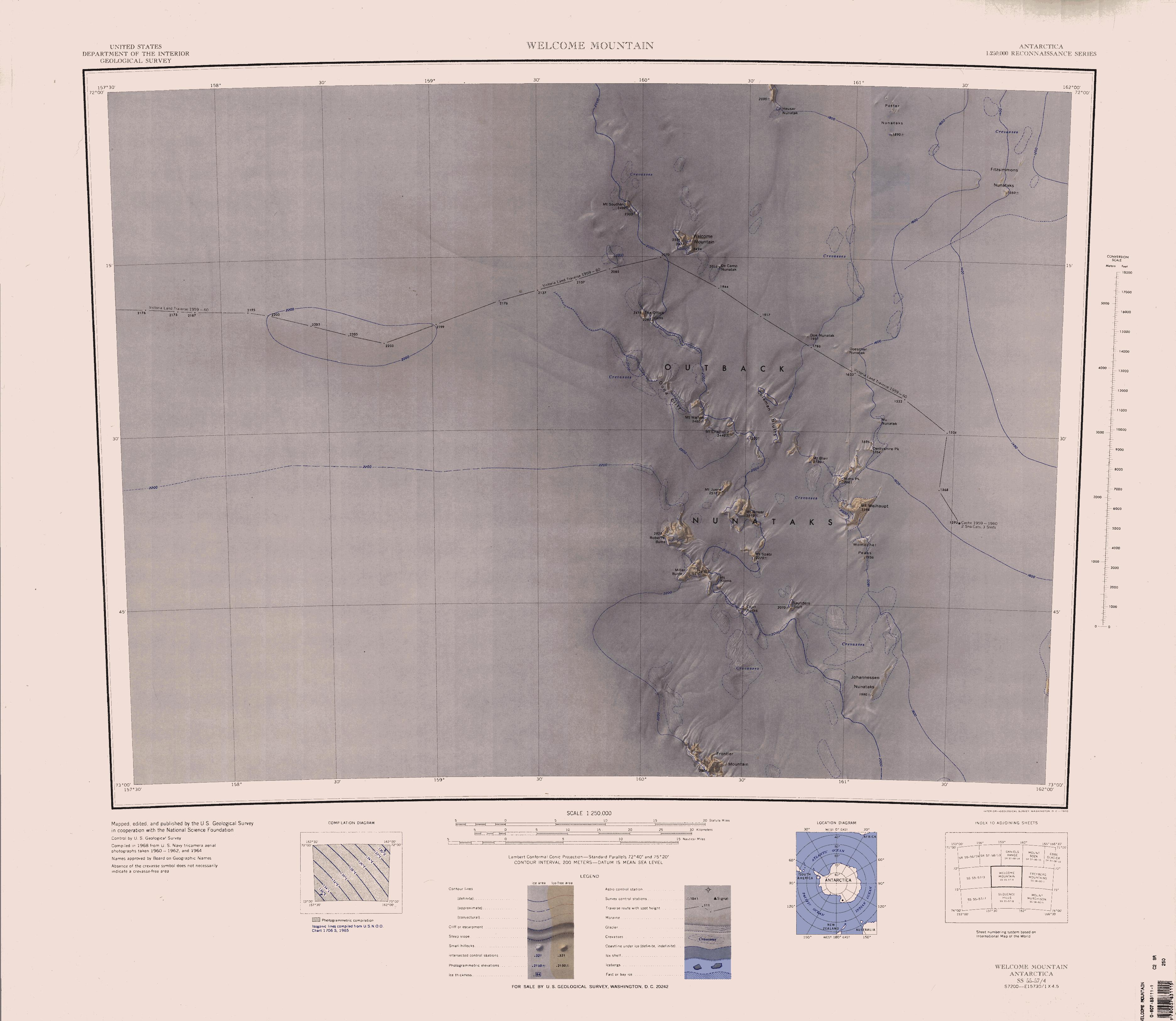 1:250,000-scale topographic reconnaissance map of the Outback Nunataks area from 162°-163°30'E to 72°-73°S in Antarctica, including Welcome Mountain. Mapped, edited and published by the U.S. Geological Survey in cooperation with the National Science Foundation.